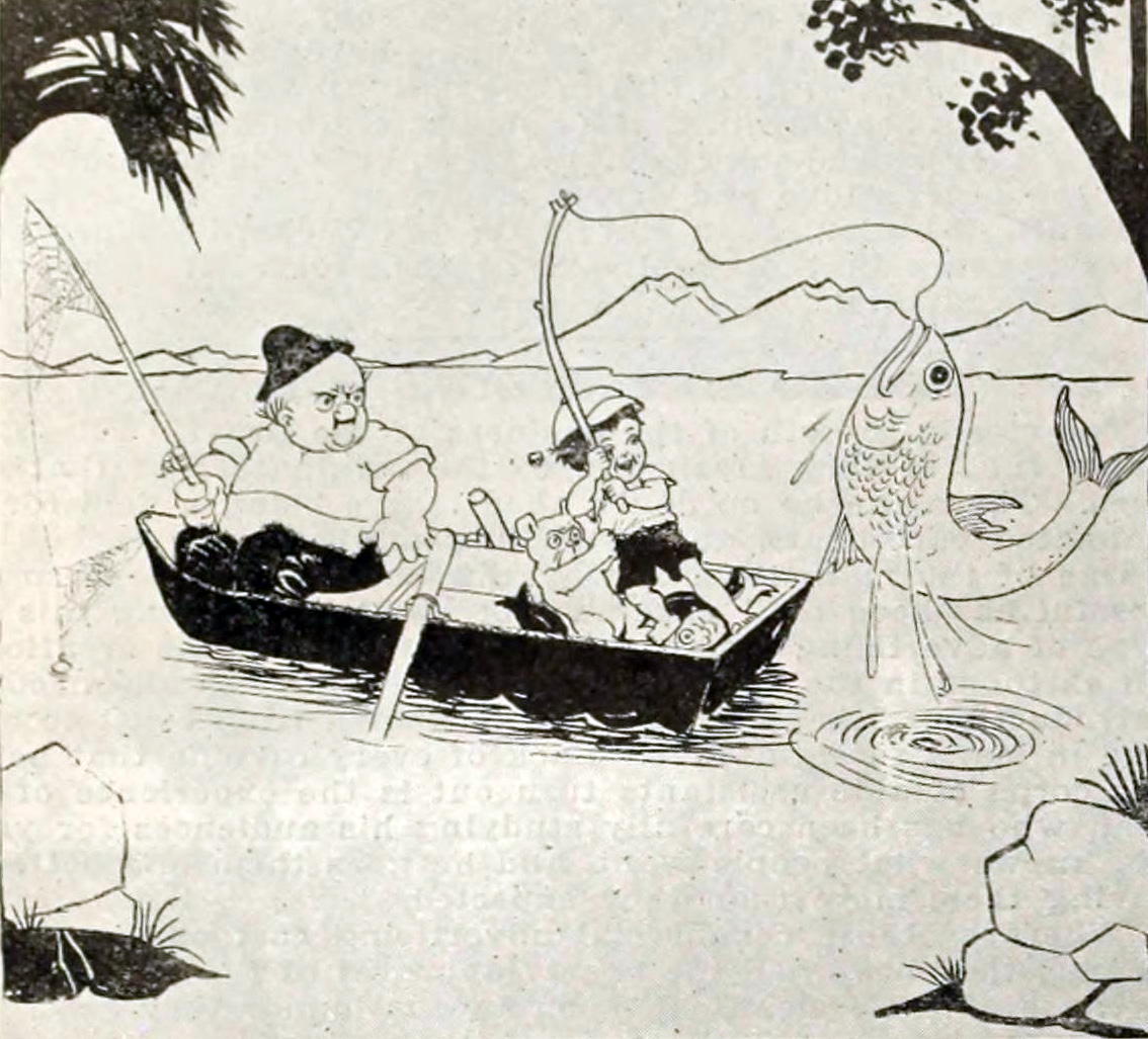 Illustration of a review in The Moving Picture WOrld